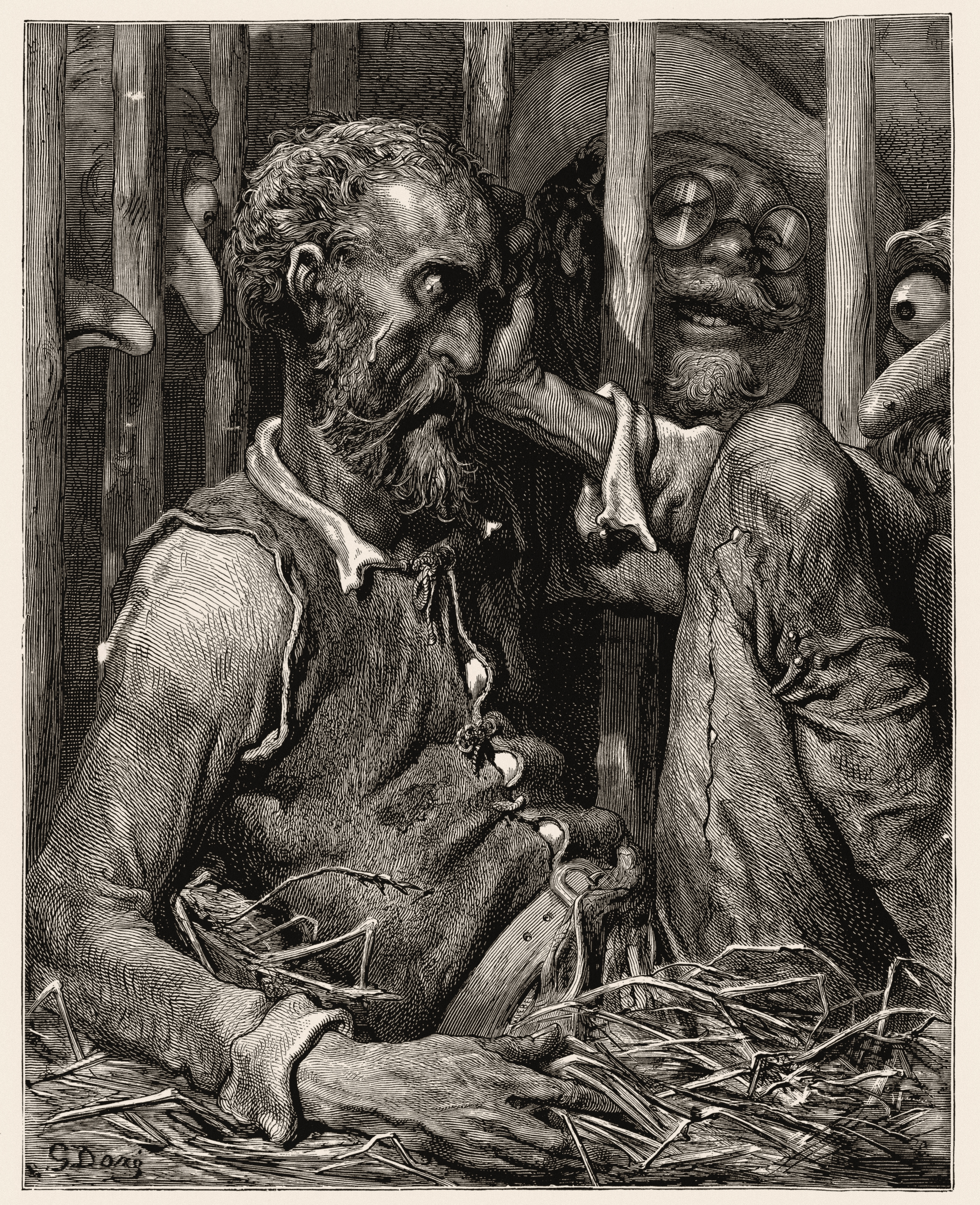 Scan of a Gustave Doré Engraving from "The Ingenious Hidalgo Don Quixote of La Mancha" - 1863.